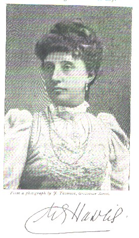 Mary Eliza Haweis who died in 1898